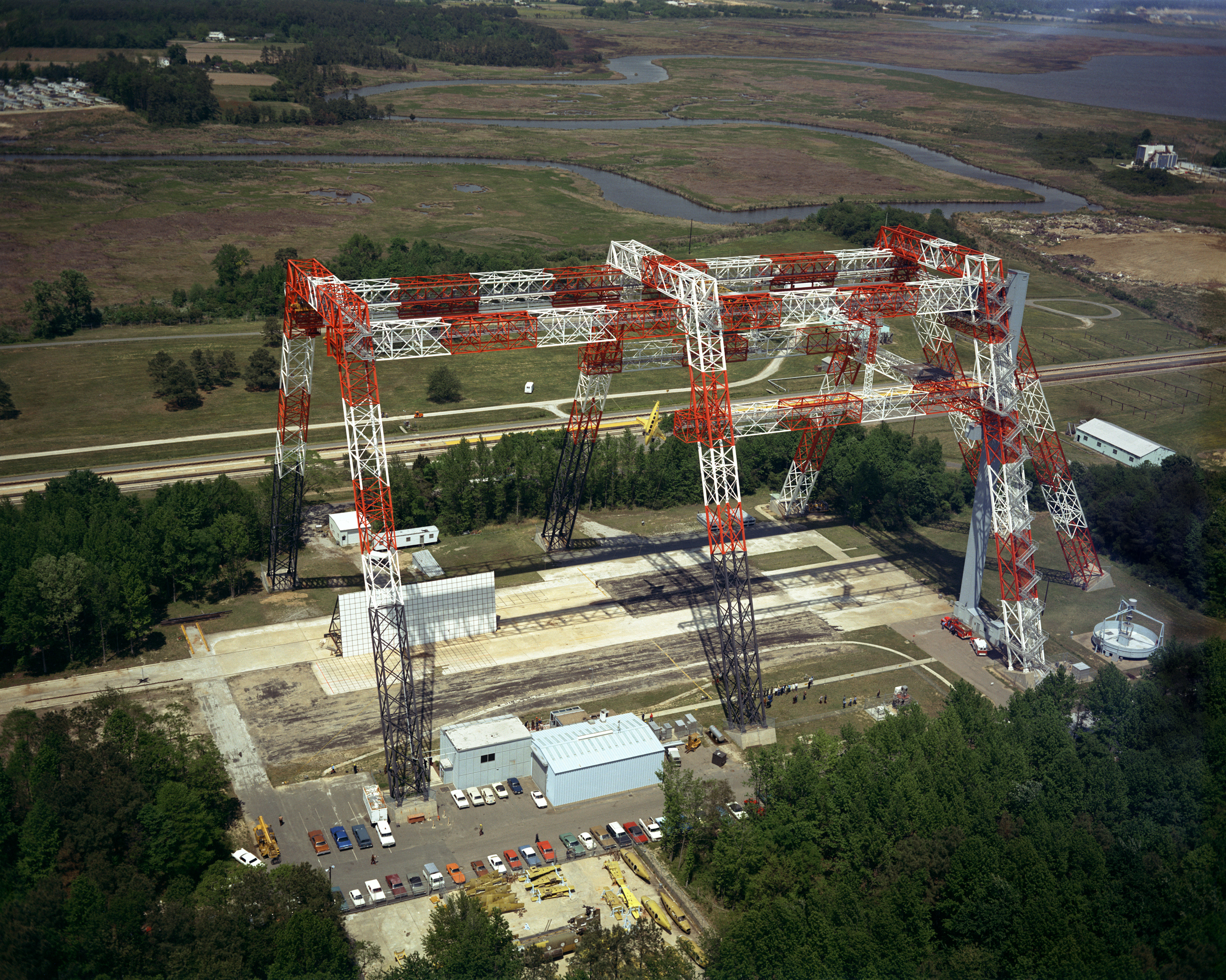 The Langley drop test facility where aircraft crashes can be simulated. The grid screen at the left of the facility is used as a backdrop for the impacts to allow engineers to measure angles and impact speeds. This facility was originally built to test a lunar lander simulator.